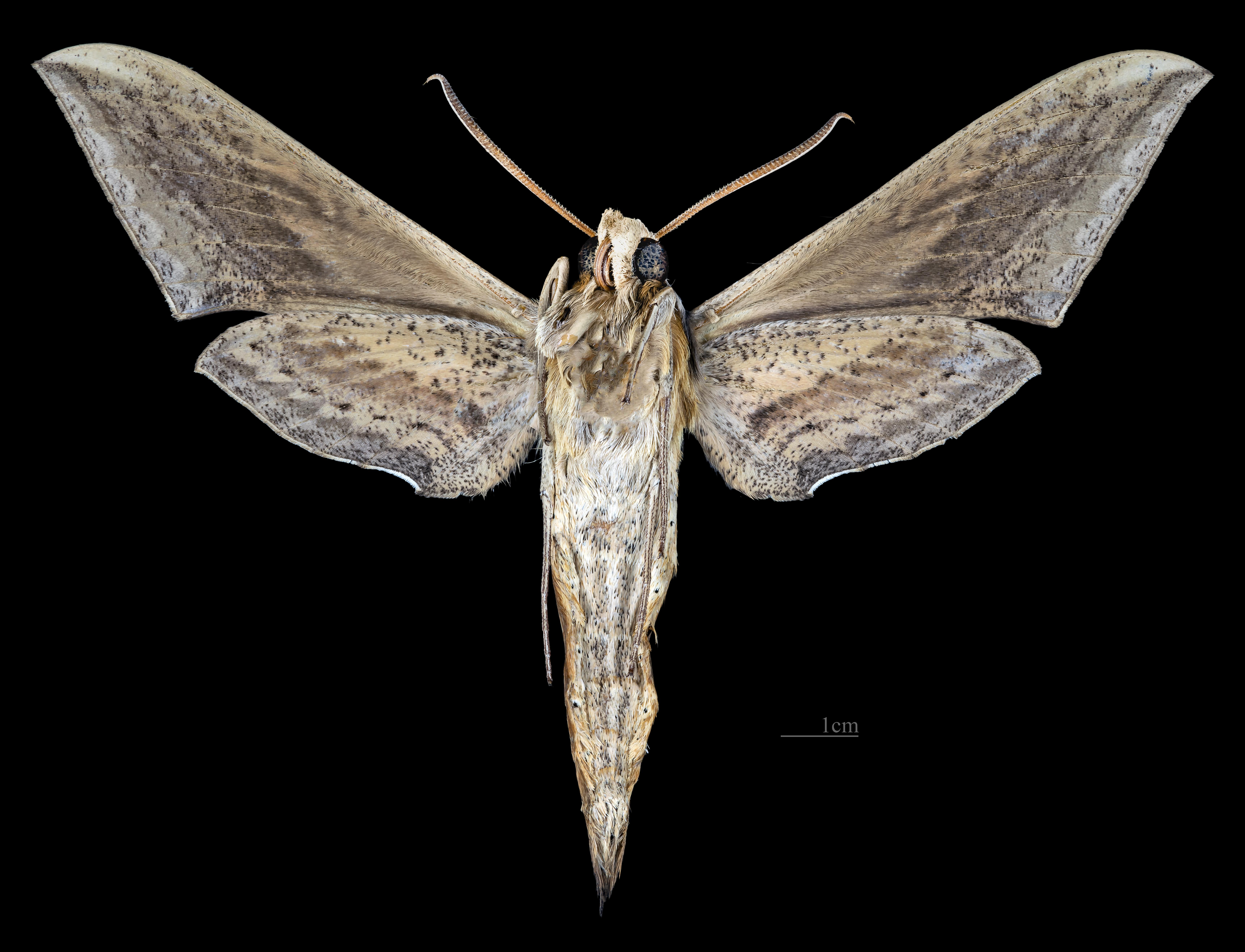 Xylophanes falco - △ Ventral side Collection of the Mathematician Laurent Schwartz